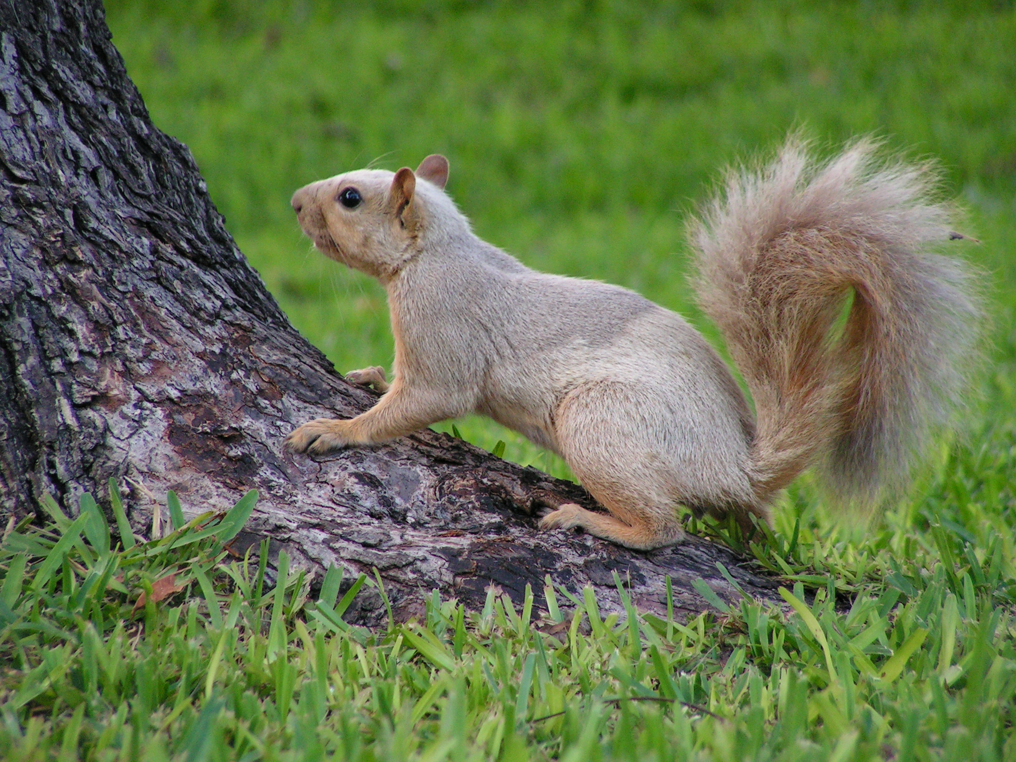 This is an albino squirrel seen at the Texas capitol building in Austin, TX.